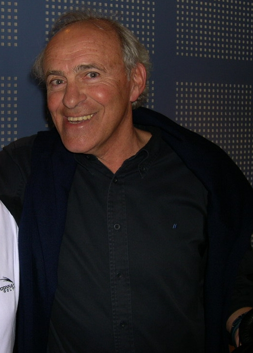 Mordechai Spiegler.